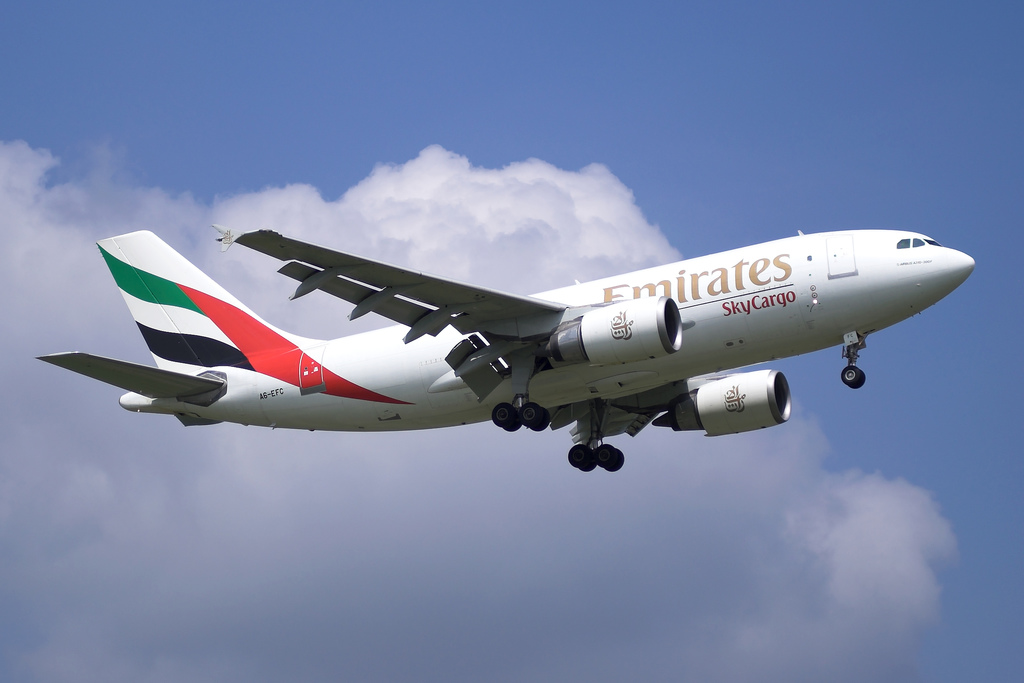 Emirates SkyCargo Airbus A310F A6-EFC at Zürich Airport